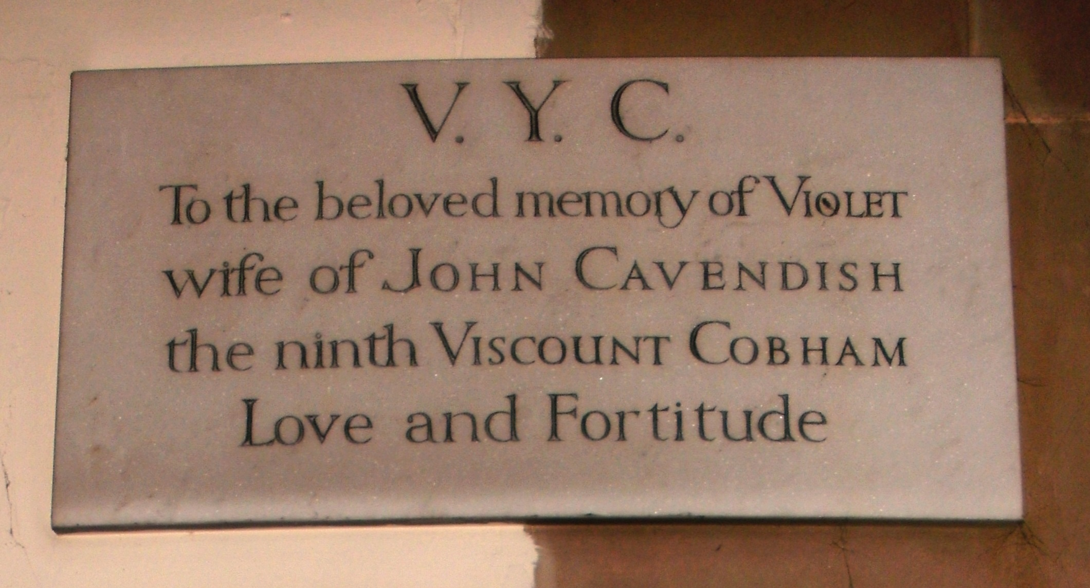 Hagley, Worcestershire, St John the Baptist Church - interior, memorial to Violet Lyttelton (wife of the 9th Viscount Cobham)